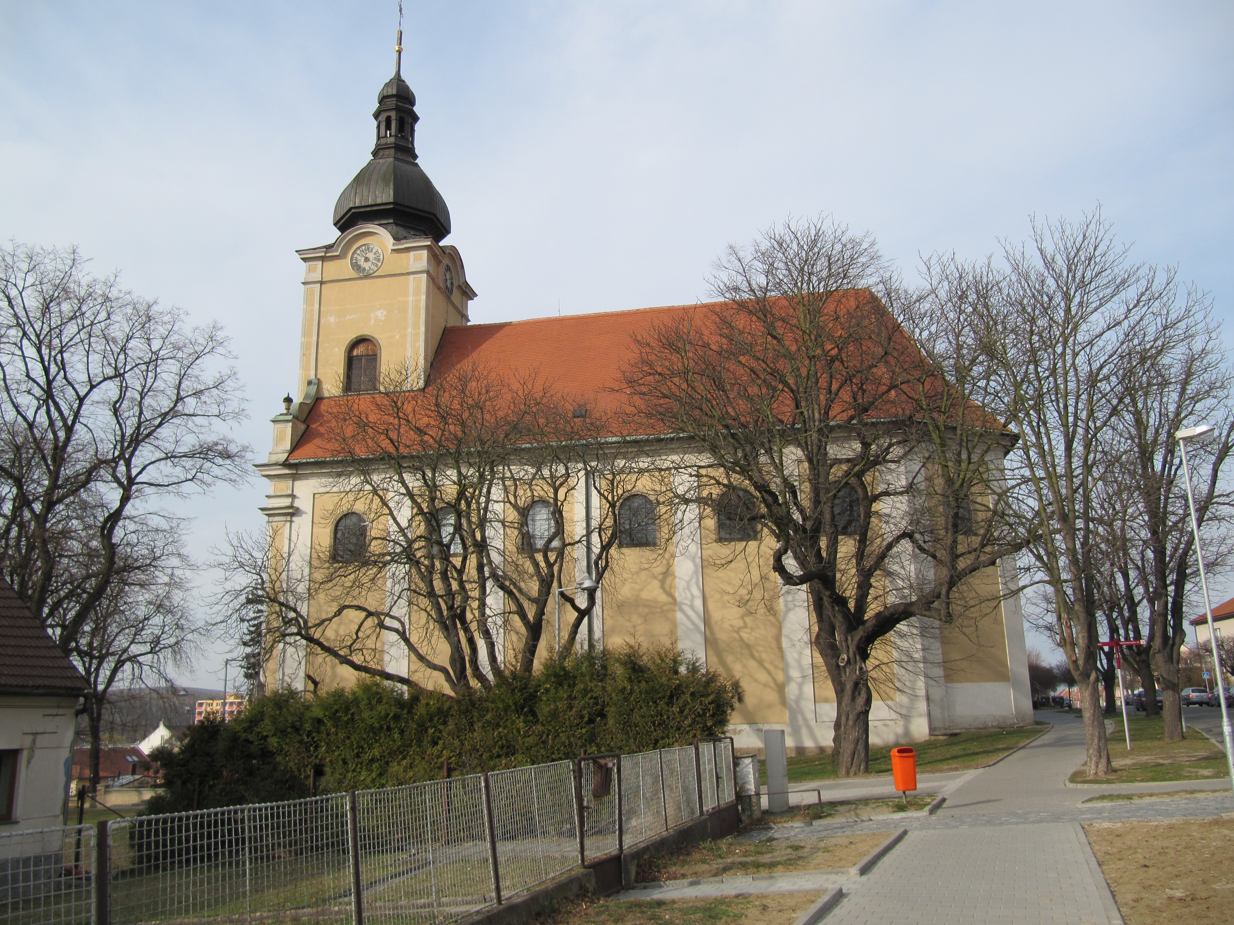 Napajedla in Zlín District, Czech Republic. Church of St. Bartholomew.